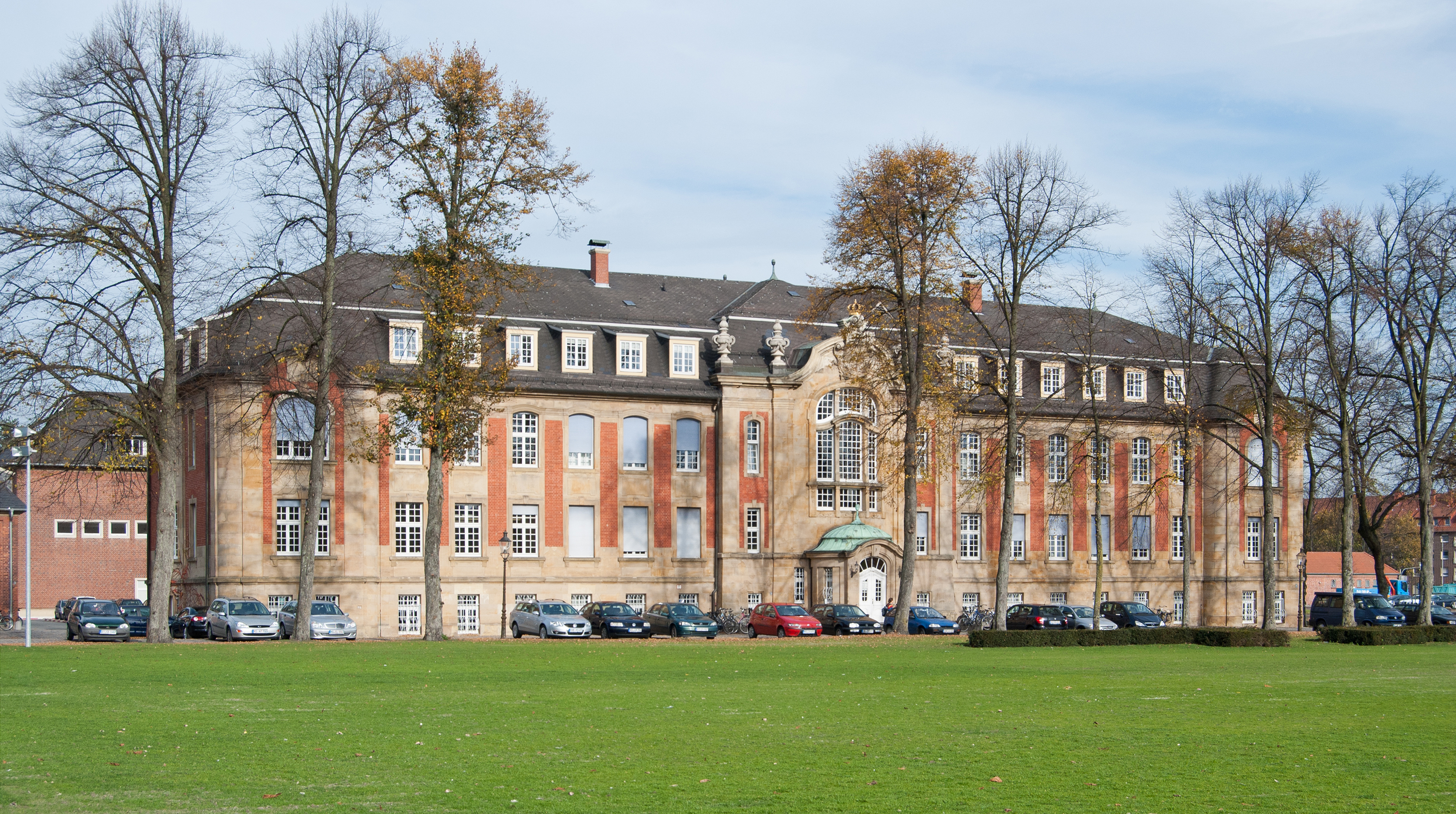 Münster (North Rhine-Westphalia, Germany) – Münster Palace – nothern royal stables, former governor presidium of the Province of Westphalia This photograph was taken with a Nikon D3000